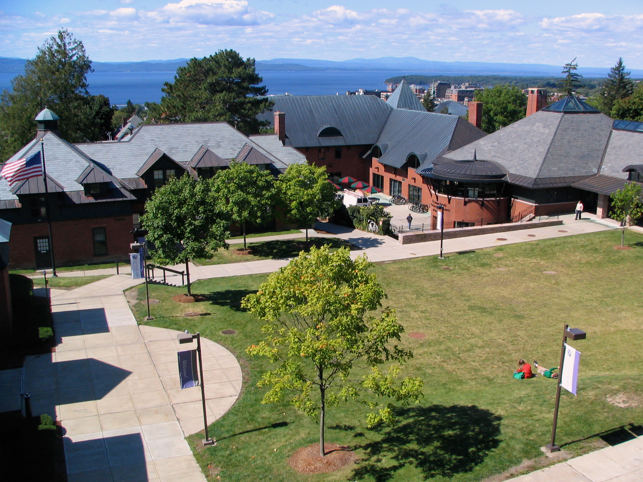 The central campus of Champlain College in Burlington, Vermont, United States.